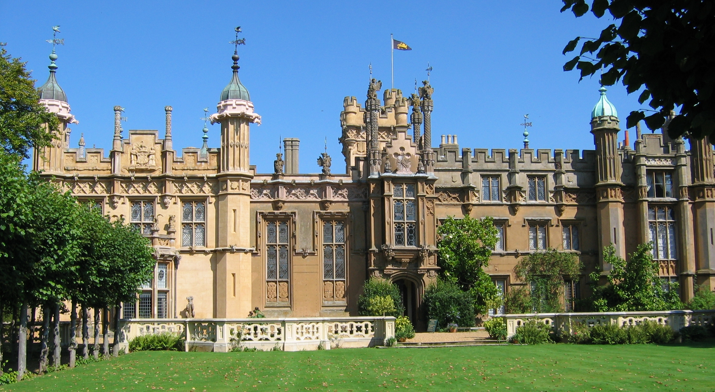 West facade of Knebworth House, Hertfordshire, England